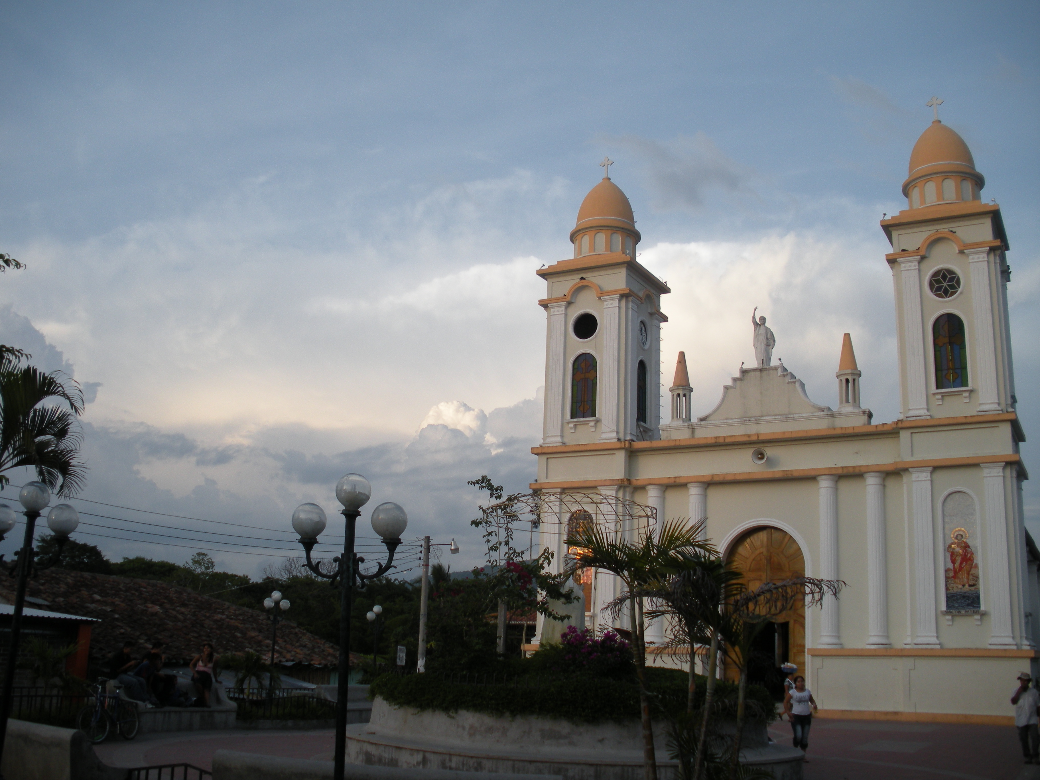 Church of San Pedro Perulapán